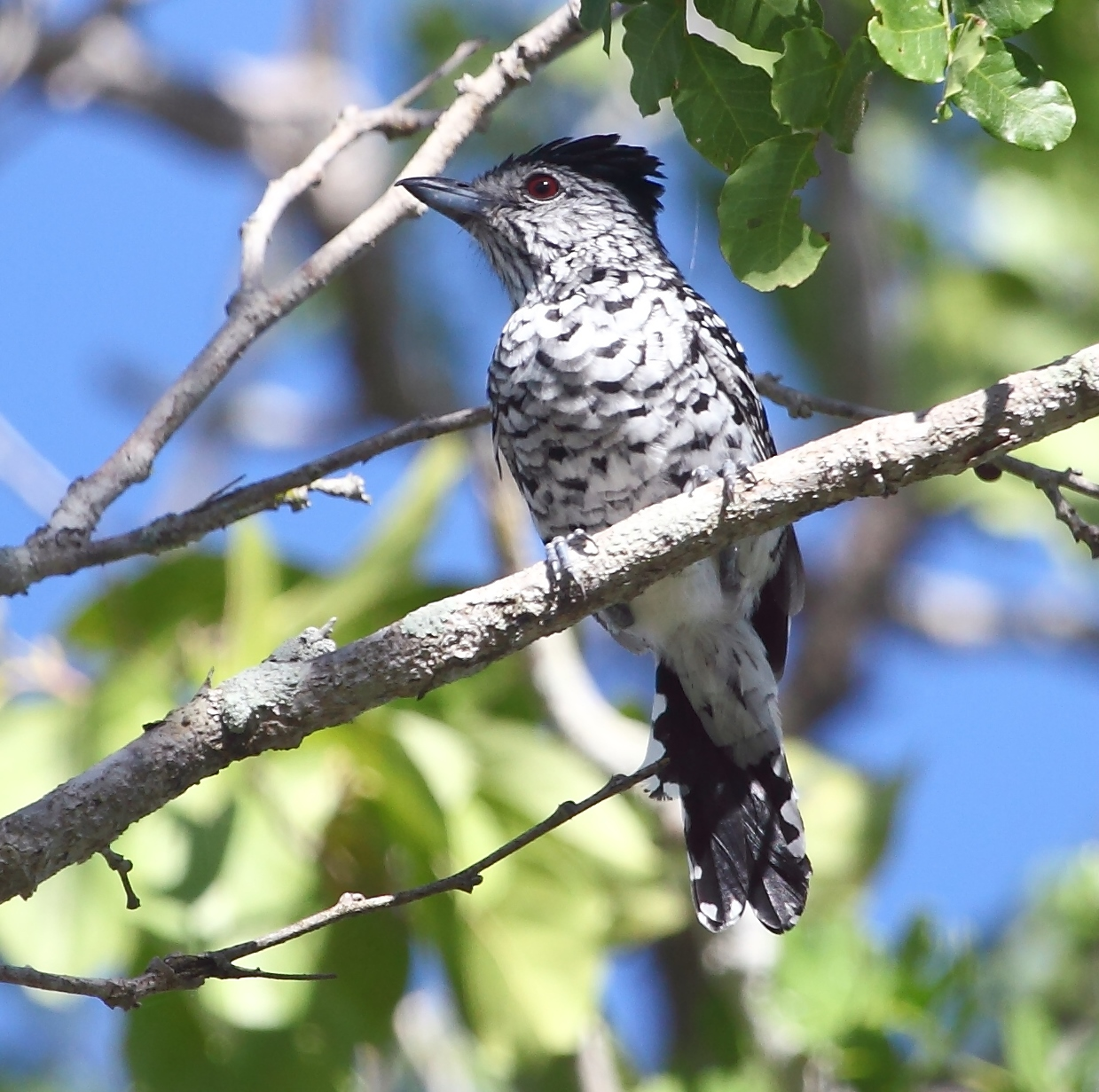 Caatinga antshrike (male) at Riachuelo, Rio Grande do Norte, Brazil